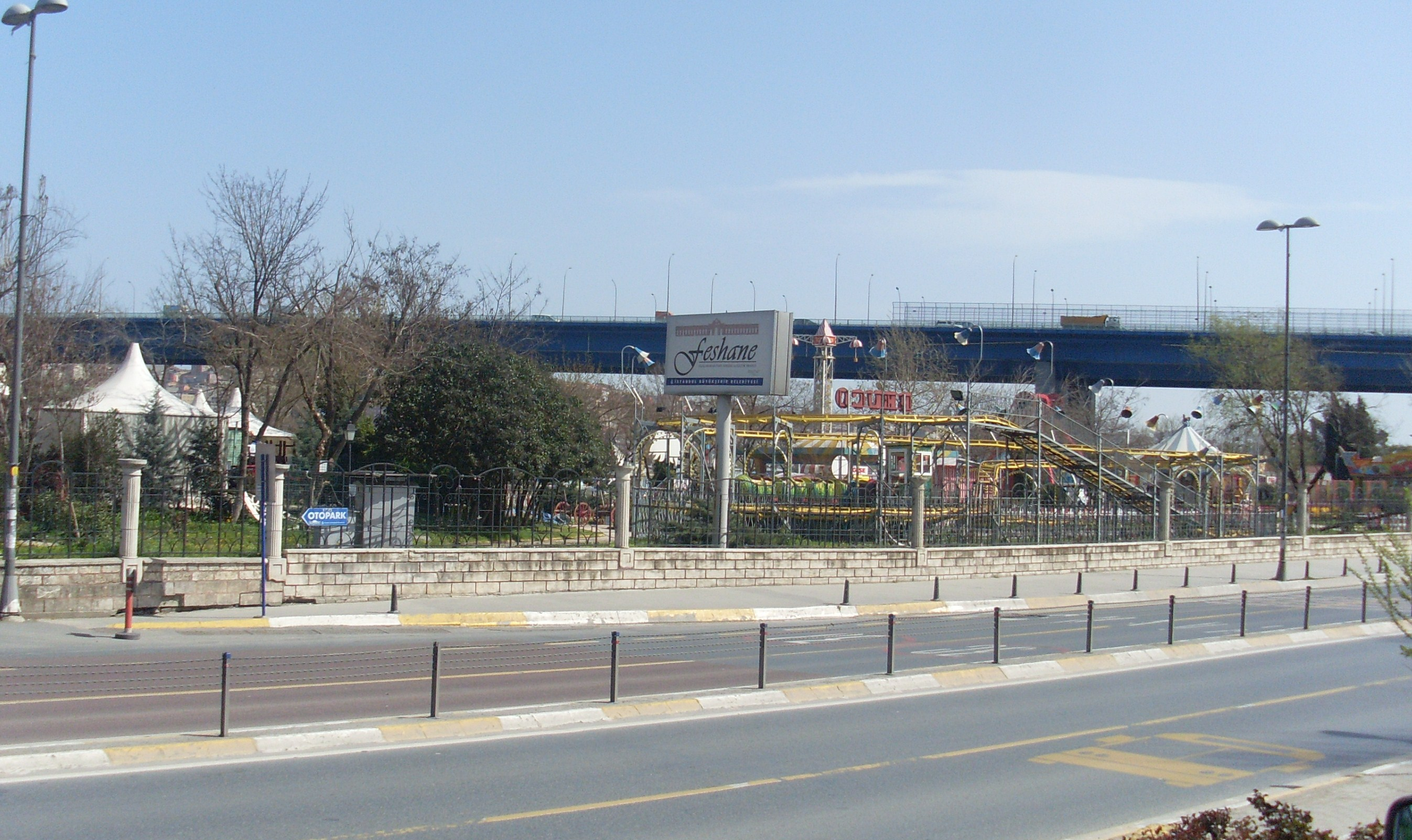 İstanbul - Feshane - Mart 2013 r3